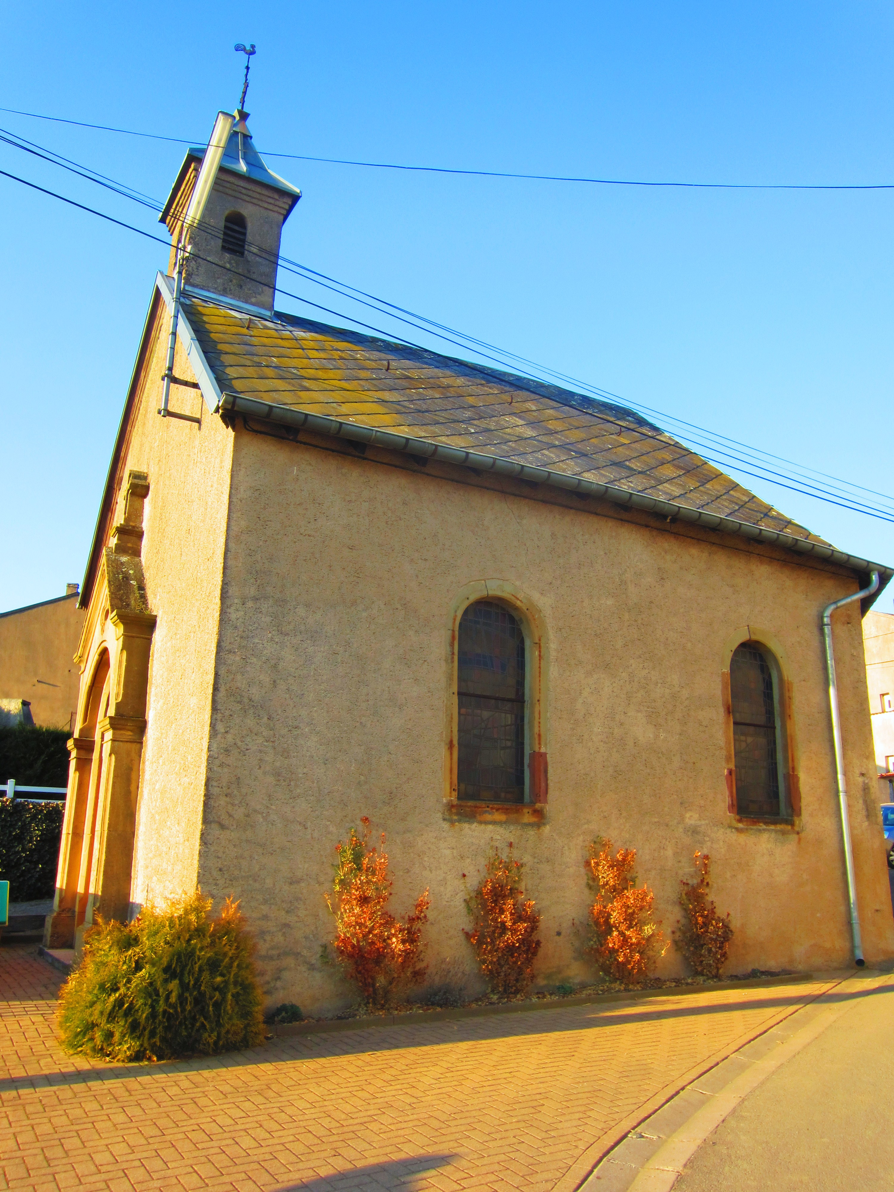 Tunting Manderen chapel